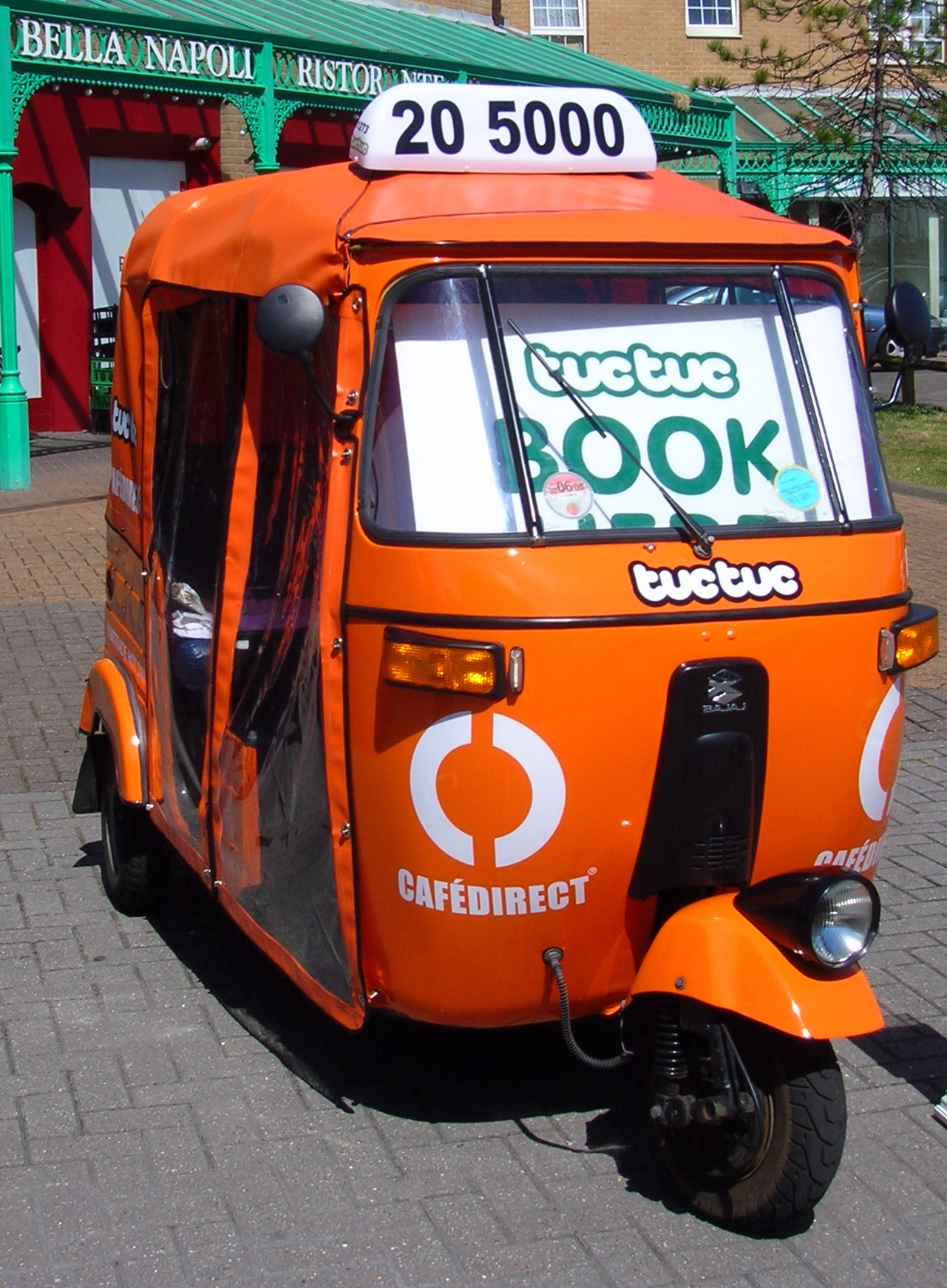 Brighton Tuc Tuc 50°48′45.72″N 0°6′7.76″W / 50.8127°N 0.1021556°W